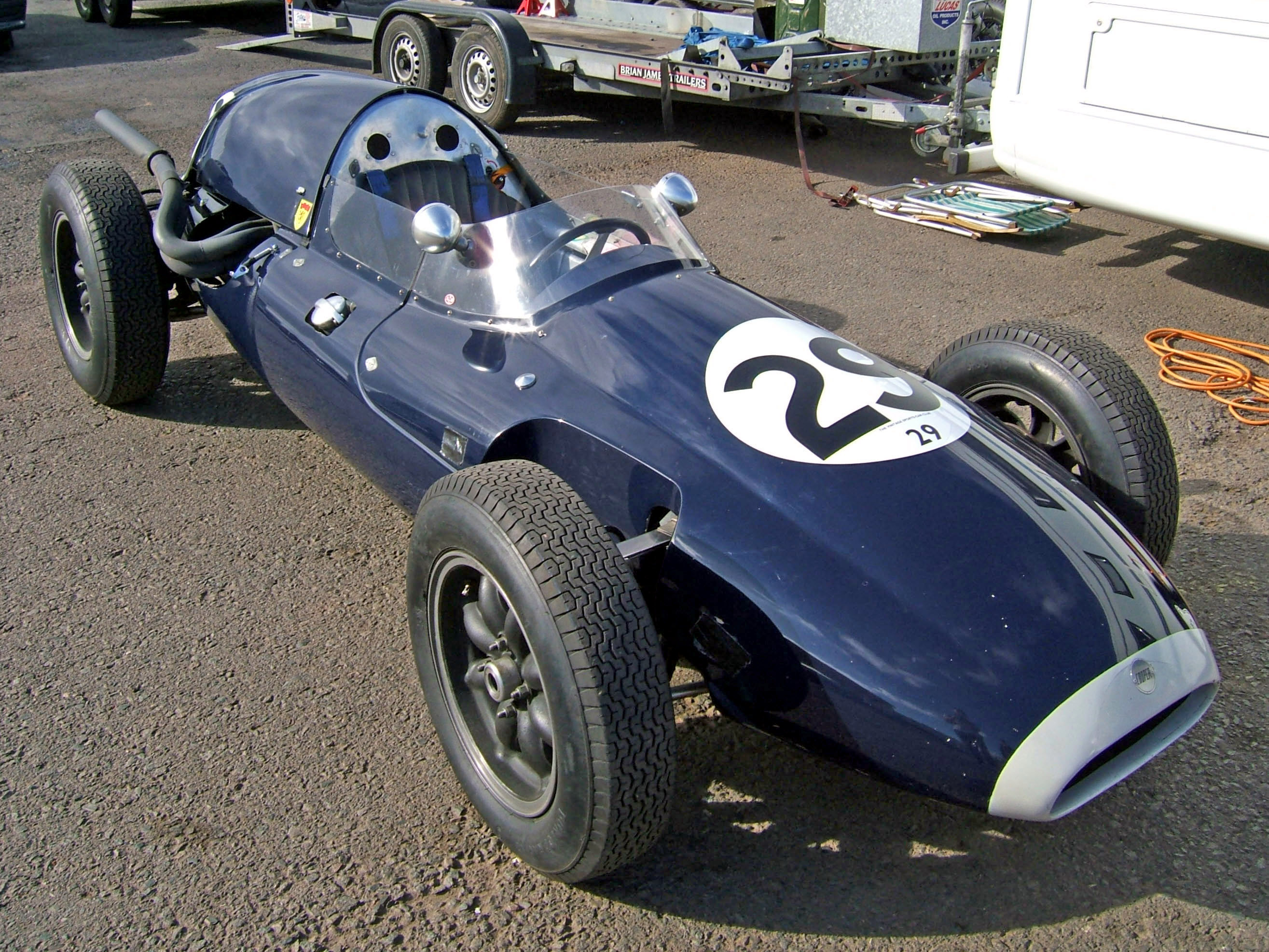 A Cooper T43 Formula Two car waiting in the paddock of the VSCC SeeRed race meeting, Donington Park, September 2007.